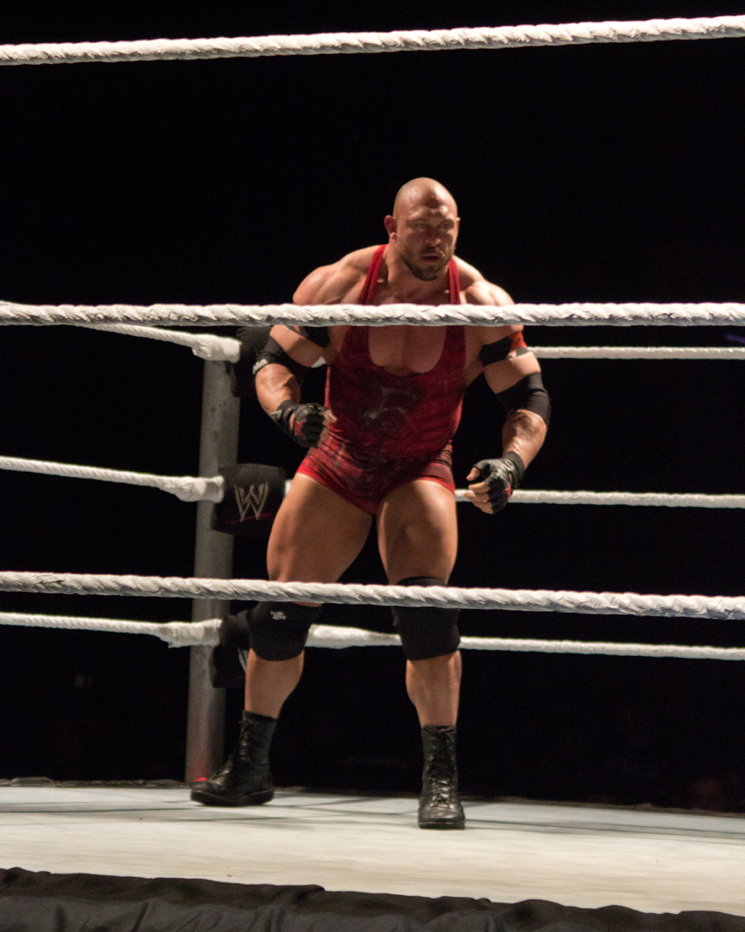 Ryback during a WWE house show on February 2, 2013 in Montgomery, Alabama.